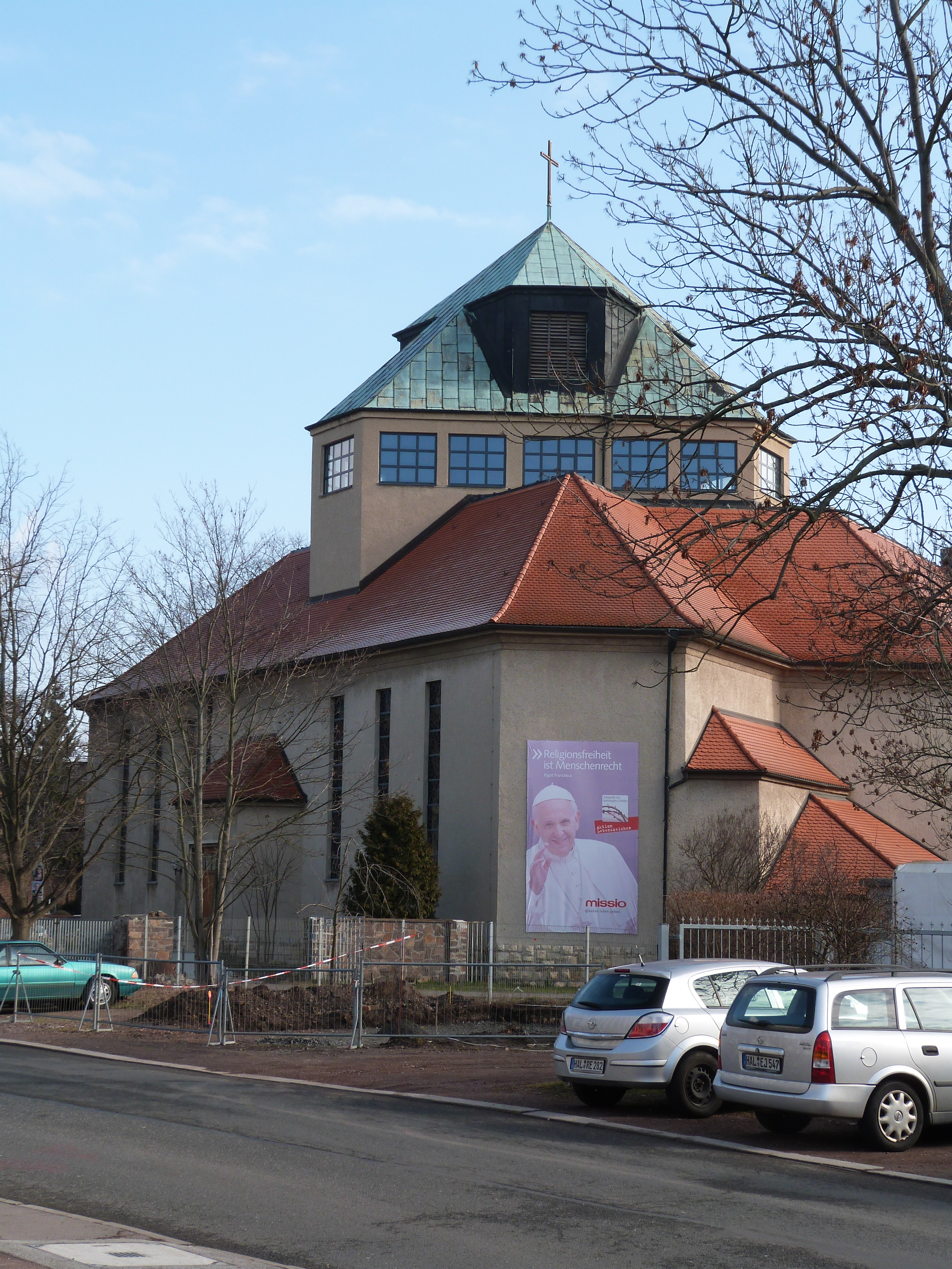 Franciscan monastery with Trinity Church, in Halle/Saale (Saxony-Anhalt)